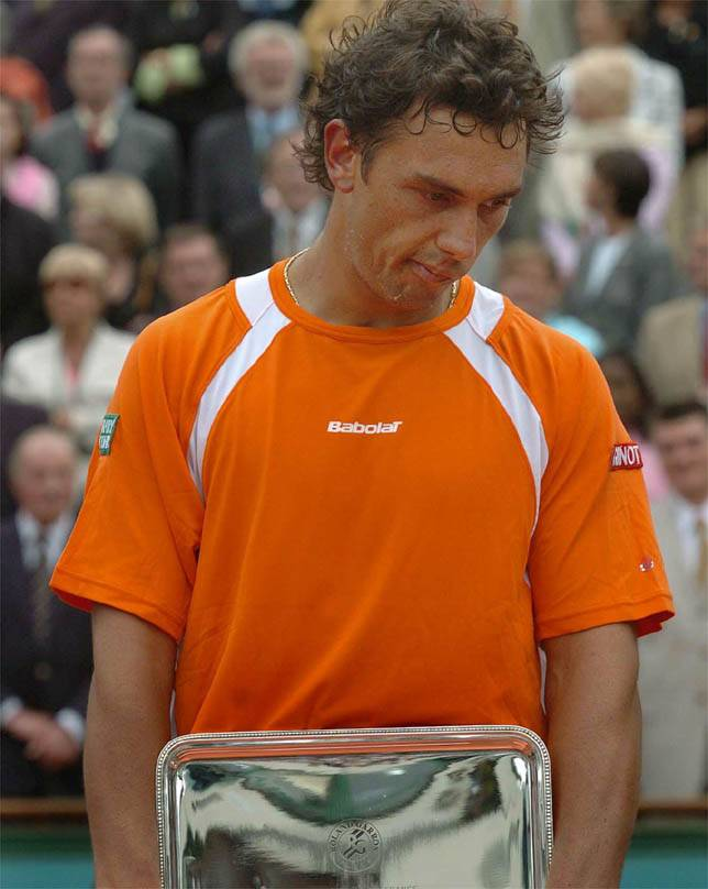 Runner-Up 2005 French Open - Mariano Puerta "di mi máximo en cada punto, pero perdí con el mejor. No tengo nada que reprocharme" ("I gave everything in each point. I lost with the best one. I have nothing to regret.")